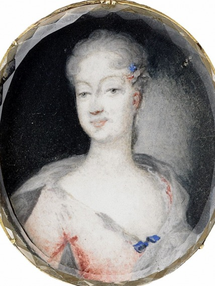 Ulrika Juliana Gyllenstierna (1704-1765)